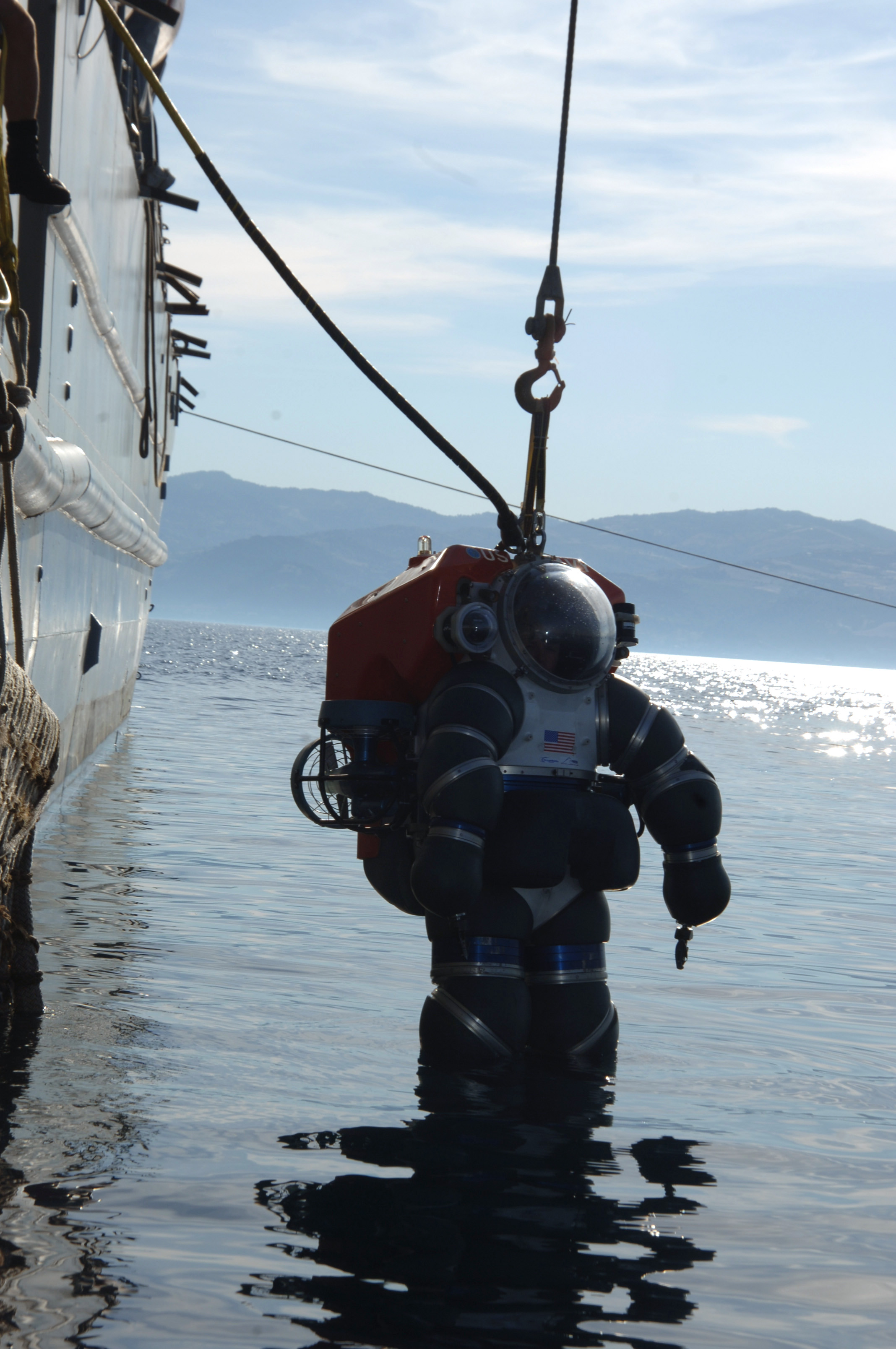 Gulf of Taranto, Italy (June 23, 2005) - U.S. Navy civilian contractor Nate Kibbler is lowered into the water in the Atmospheric Diving System (ADS 2000) in support of the North Atlantic Treaty Organization (NATO) submarine escape and rescue exercise Sorbet Royal 2005. Divers from various nations will work together to rescue submariners during the exercise in the Mediterranean. Twenty-seven participating nations, including 14 NATO nations will test their capabilities and interoperability. Four submarines with up to 52 crewmembers aboard will be placed on the bottom of the ocean, while rescue forces with rescue vehicles and systems work together to solve complex disaster rescue problems. U.S. Navy photo by Chief Journalist Dave Fliesen (RELEASED)